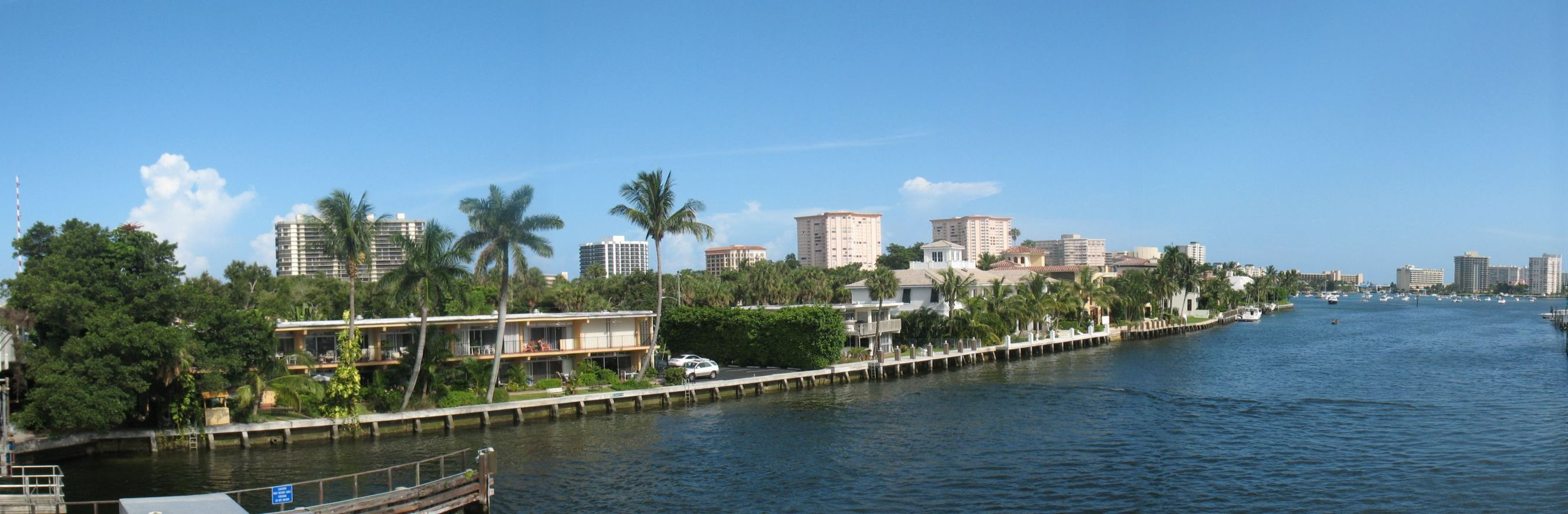 The skyline of Boca Raton, Florida's beachfront area (not downtown).